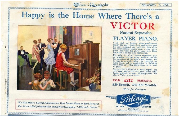 Title: Illustrated advertisement from the supplement to The Christmas Queenslander, December 5, 1929, p. [10] Author/Creator: Unidentified Queenslander (Brisbane, Qld. : 1866-1939) Subjects: periodical illustrations ; advertisements ; pianolas ; dancing ; blinds ; verandas ; furnishings ; W.H. Paling and Company ; Advertising, Newspaper--Queensland ; Advertising--Pianola ; Advertising--Blinds Coverage: Unidentified Publisher: John Oxley Library, State Library of Queensland Is Part Of: View related images: Summary/Contents: The upper advertisement is for a Victor natural expression player piano available at Palings in Queen Street, Brisbane and features a young woman playing the pianola while people dance. The lower advertisement is for Aerolax Lock-Link blinds and features two women relaxing on the verandah which is shaded and protected by the blinds. [The lower advertisement has been cropped from the upload to Wikimedia Commons] Date: 5 December 1929 Description: Digital format: image/jp2 ; Original format: reproductive print : col. Identifier: Image number: 702692-19291205-s003b Rights: Copyright expired. For further information please view Record number: 503590 Link to digital item: Link to this record